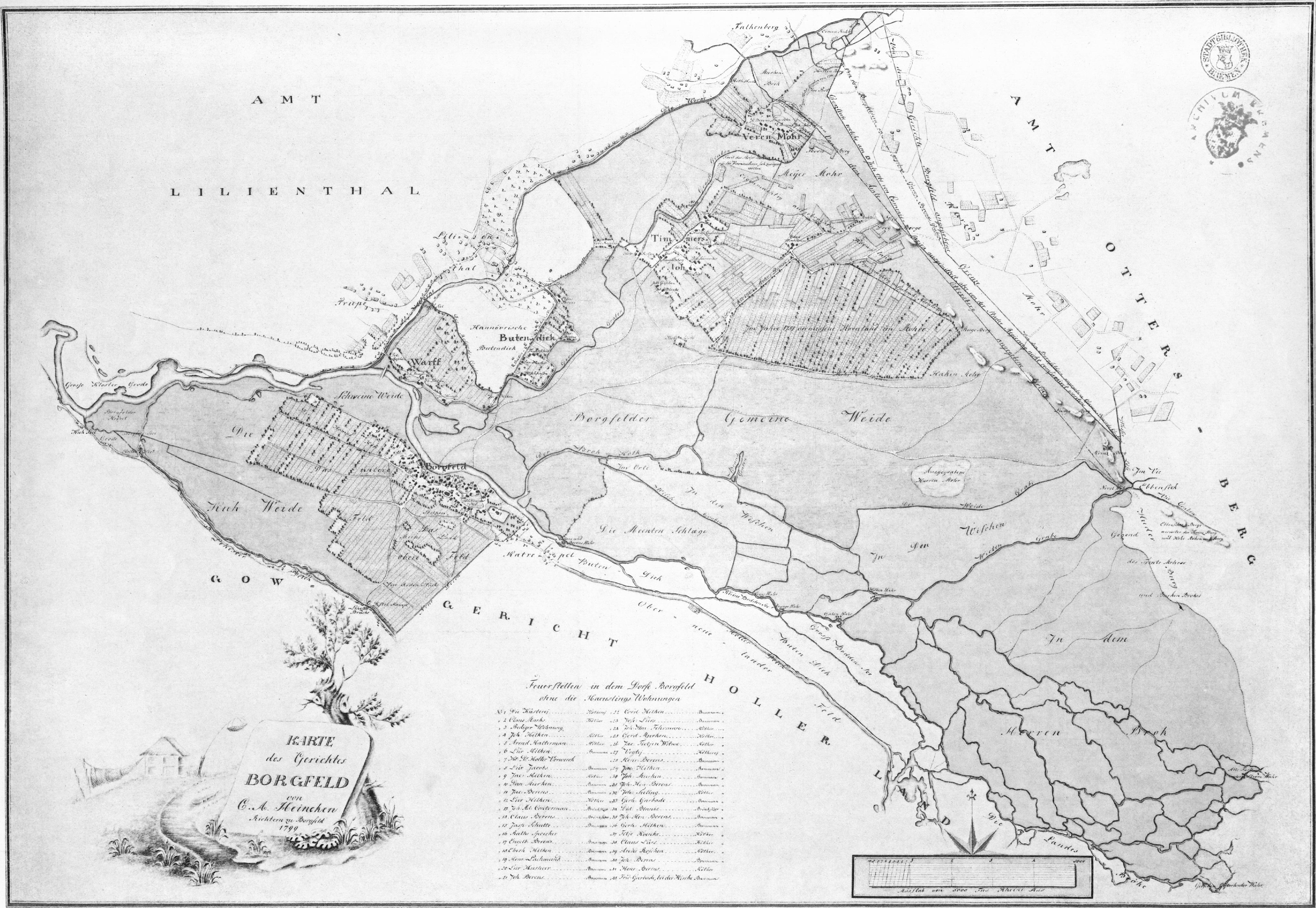 Original title: Map of the Juridical District of Borgfeld by C. A. Heineken, judge of Borgfeld, 1799